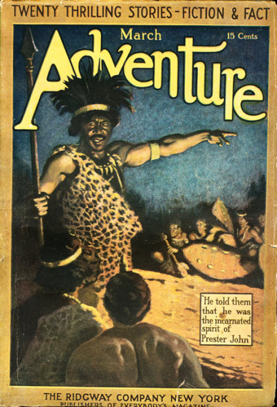 Cover of Adventure, vol. 1 no. 5 (March 1911).